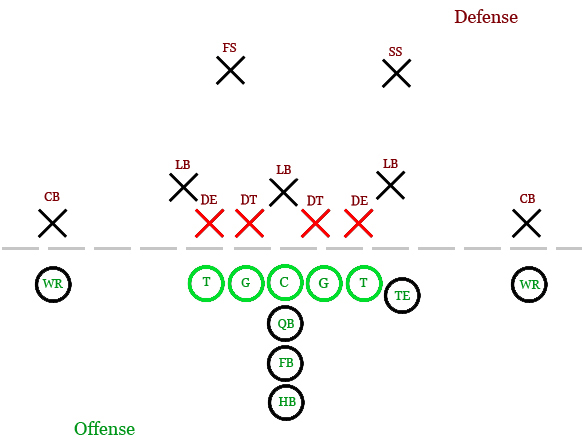 The Defensive line, in 4-3 formation, is highlighted in red, and the offensive line is highlighted in green.